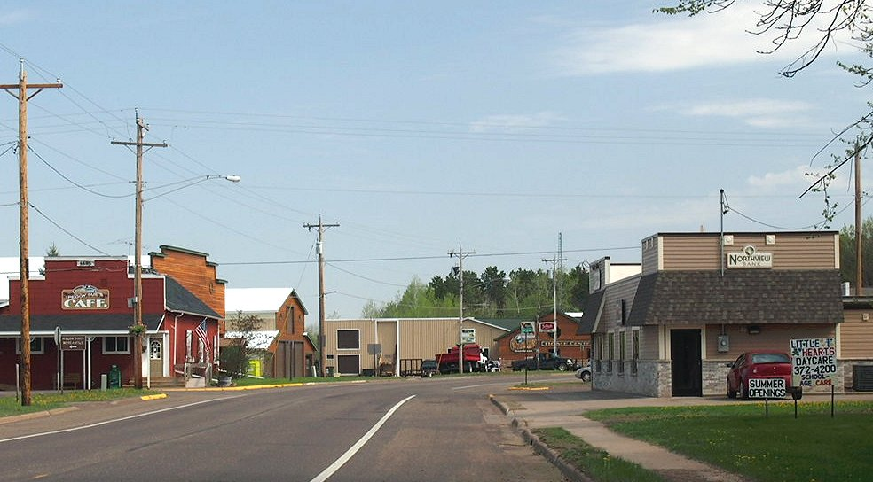 View north up County Highway 61 toward Main Street, Willow River, Minnesota, USA.